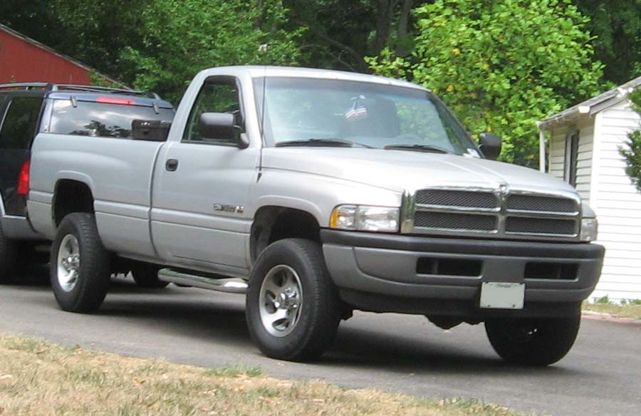 1994-2001 Dodge Ram photographed in USA.